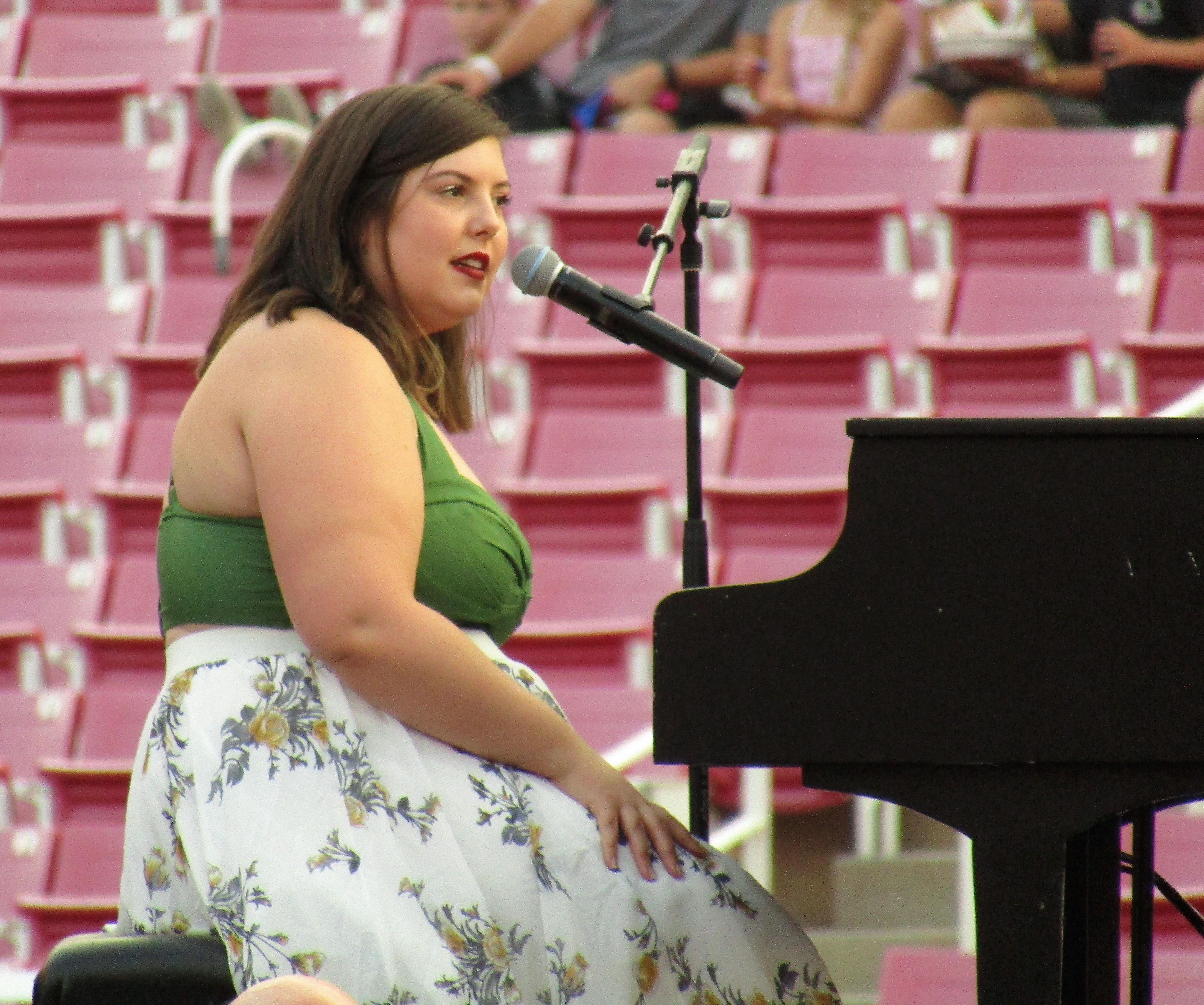 Mary Lambert performing at LoveLoud 2018.